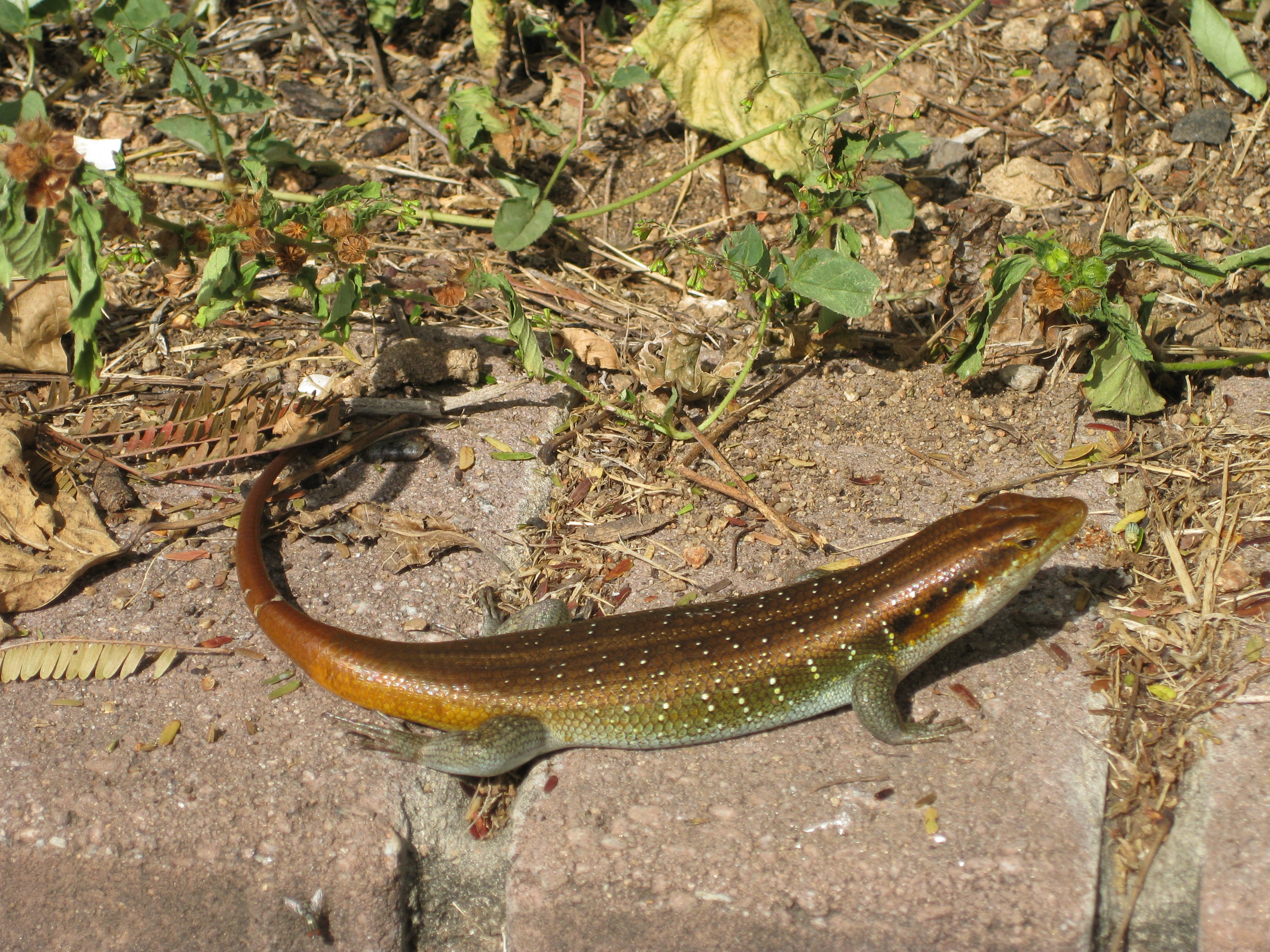 Adult male five-lined or rainbow skink (Mabuya quinquetaeniata margaritifer).